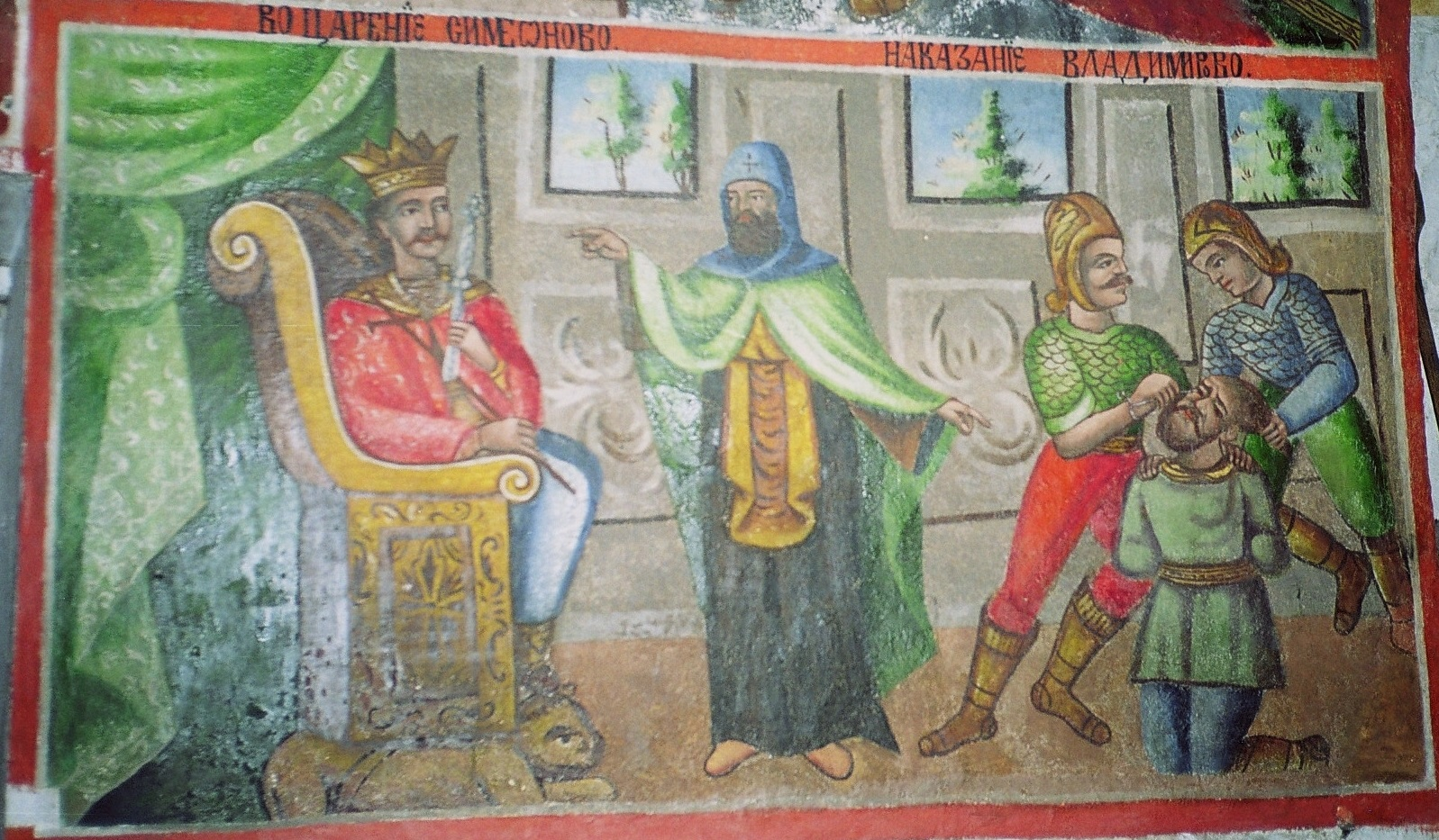 Saint Demetrius Church in Teshovo Enthronement of Simeon and Punishment of Vladimir Fresco 2